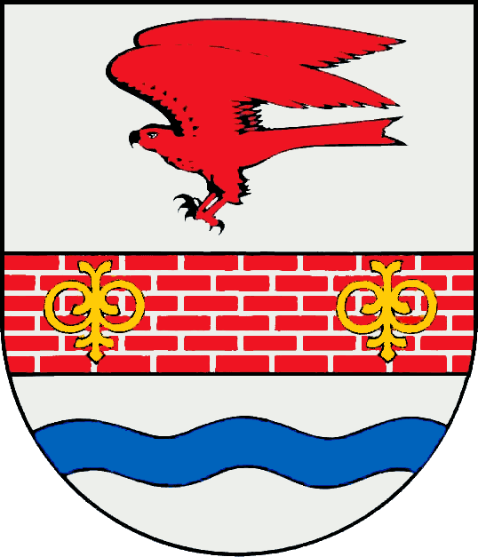 Coat of arms of the municipality Tinningstedt in Schleswig-Holstein, Germany.